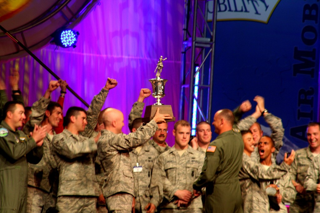 Members of the 62d Airlift Wing, McChord Air Force Base, Washington, hold up the trophy for winning Best Air Mobility Team for Air Mobility RODEO 2009 July 24, 2009, at McChord AFB. The award is considered the "Best of the Best" in RODEO competition.